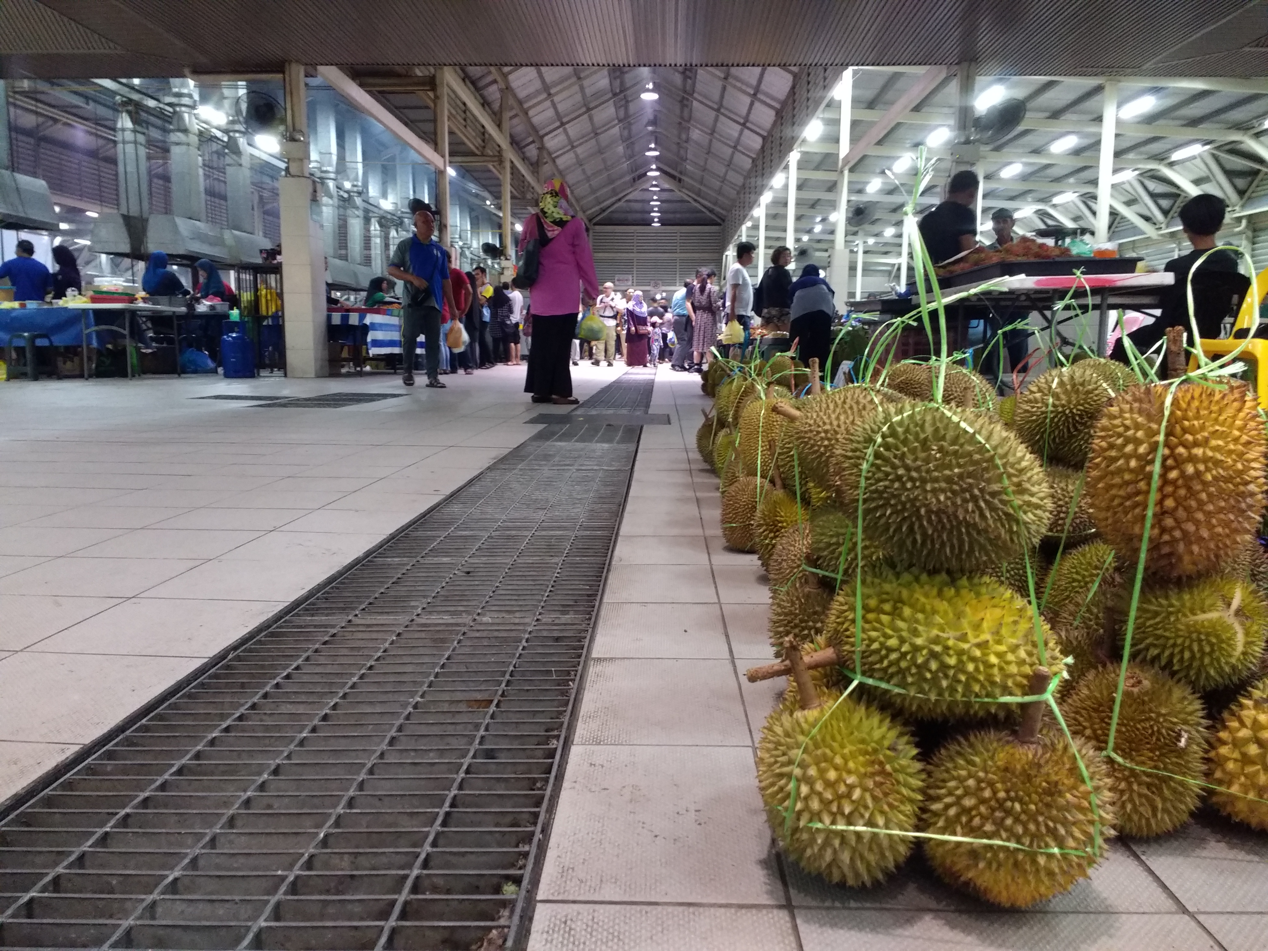 Durians for sale at the Night Market in Bandar Seri Begawan.